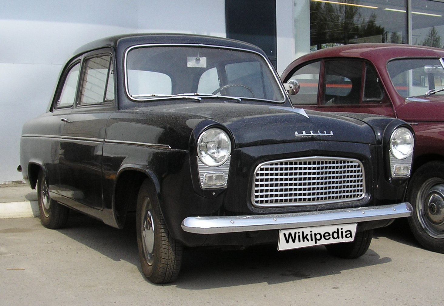 A 1958 Ford Anglia 101E